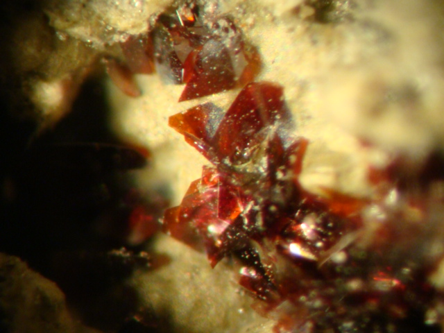 Fettelite - group of tiny Fettelite xx on vug (0.6 mm across) from an unknown mine but somewhere in Chañarcillo district - FOV 2x2 mm